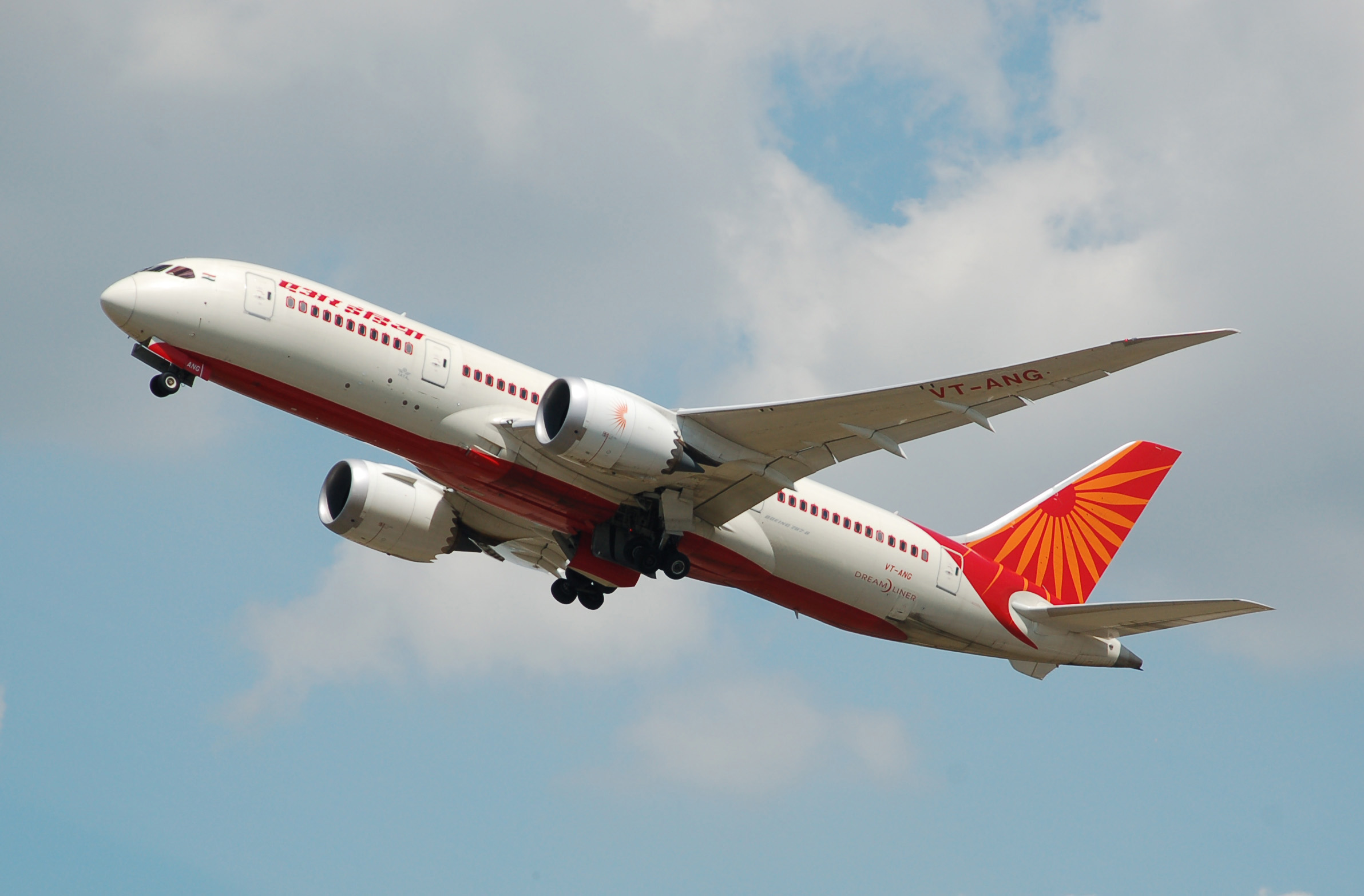 Air India Boeing 787-8 Dreamliner (VT-ANG) departs London Heathrow Airport, England, on 2nd July 2014. The undercarriage doors are yet to close.